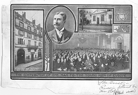 James Stokes (YMCA)